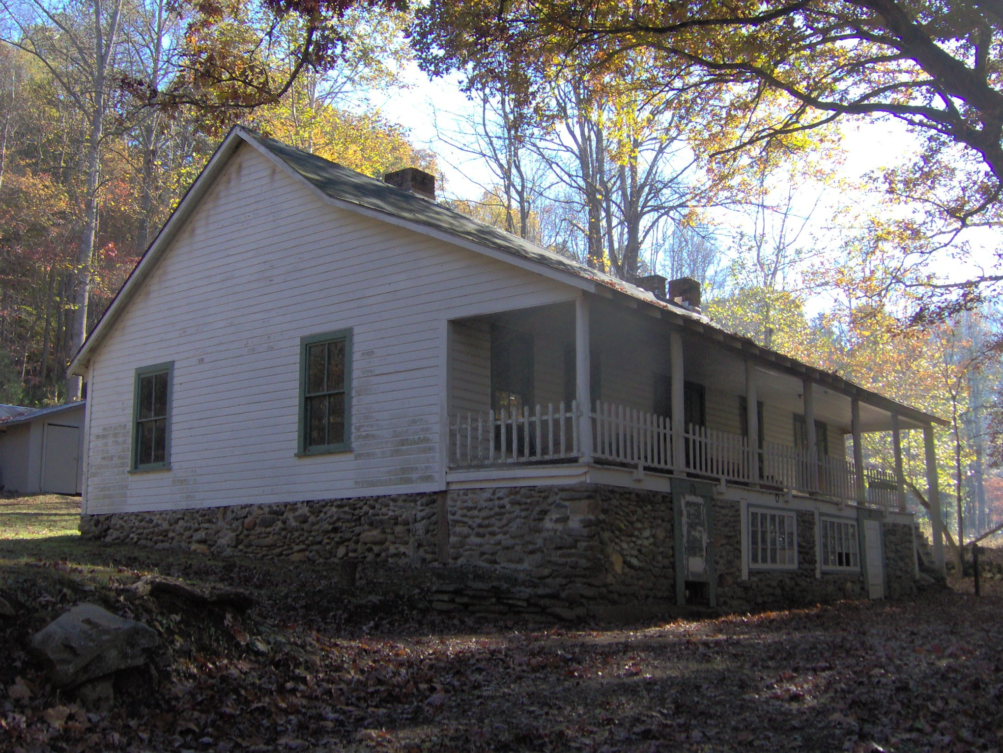 The Calhoun House in the Proctor section of Hazel Creek, located in the Great Smoky Mountains of North Carolina. Built in 1928 by George Higdon, the house was purchased by hunter Granville Calhoun. Calhoun was one the locals who accompanied Horace Kephart on the "Bear Hunt In the Smokies" recounted in Kephart's book, Our Southern Highlanders. Calhoun's father, Joshua, was a minister who settled near Bone Valley in 1886.